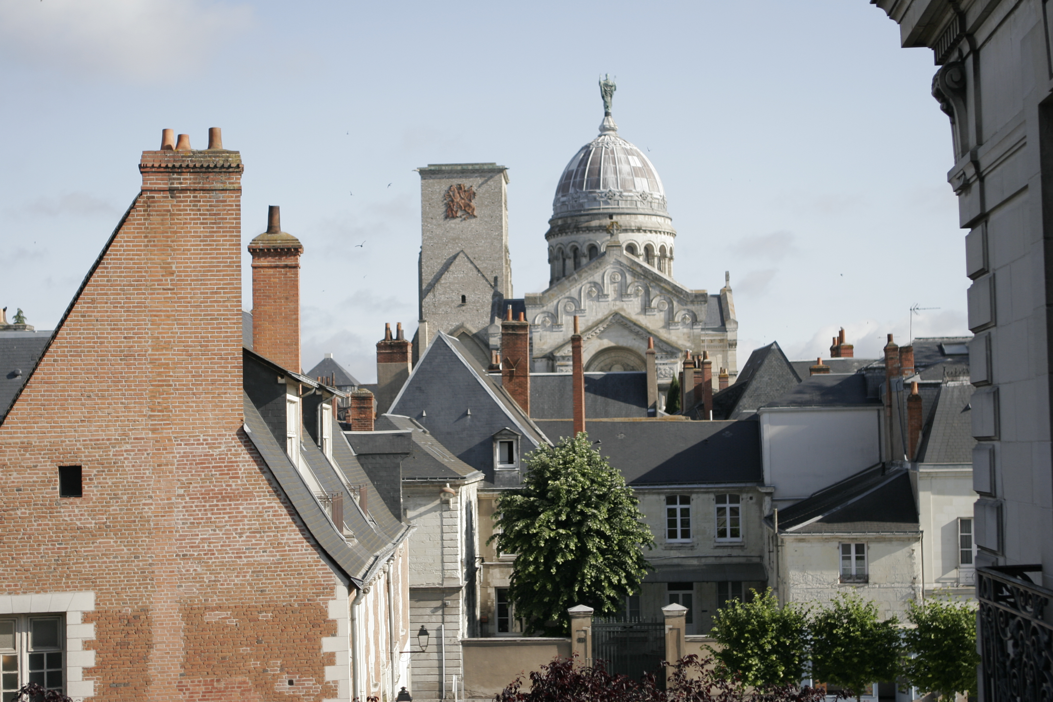 picture of the Institut de Touraine